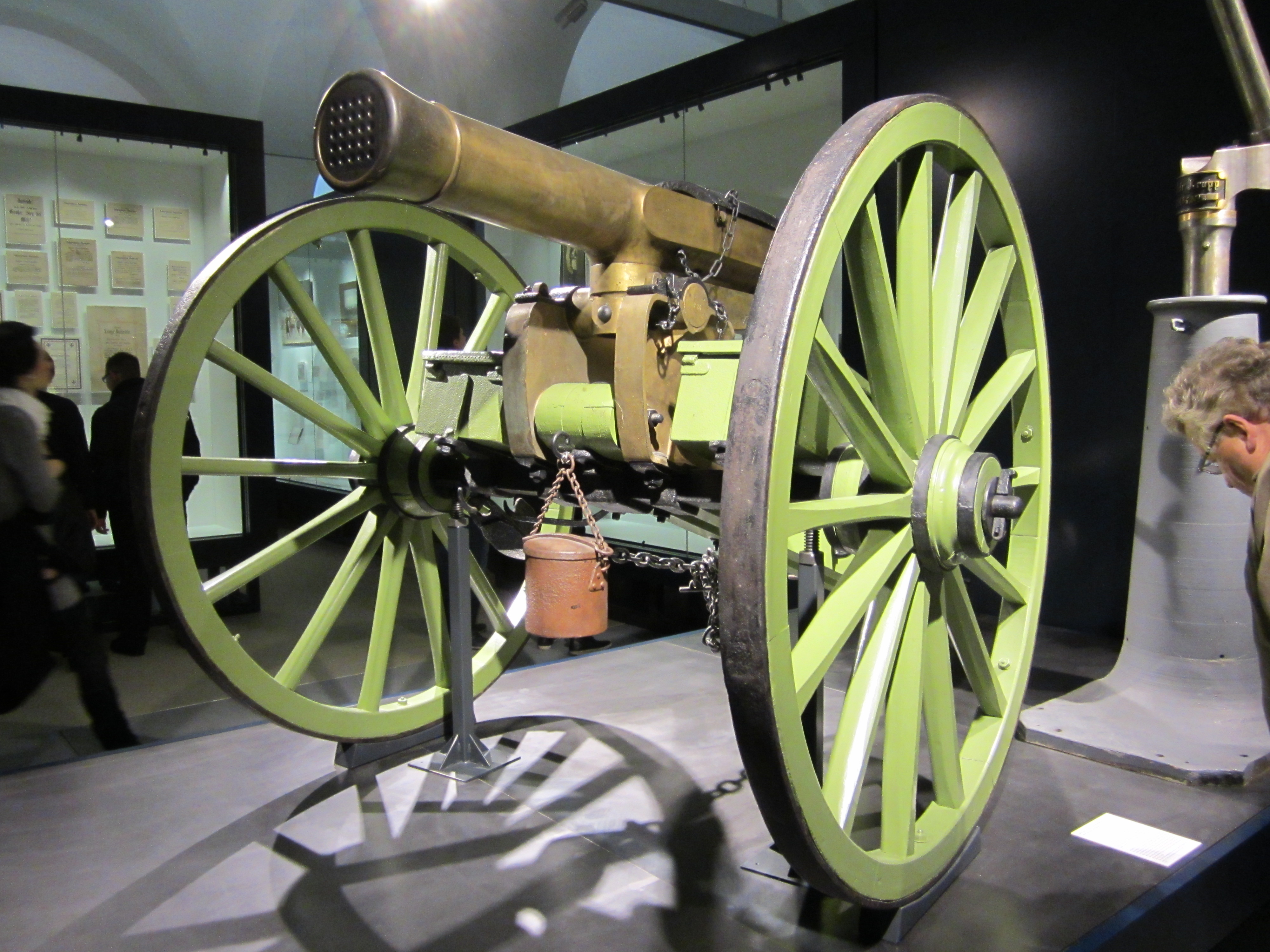 A Mitrailleuse on display at the Militärhistorisches Museum der Bundeswehr in October 2011. This weapon was produced in 1869, and captured by Saxon troops in either 1870 or 1871.